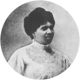 Portrait of Andrêsa do Nascimento, known as Preta Fernanda, from her 1912 book Recordações d'uma Colonial